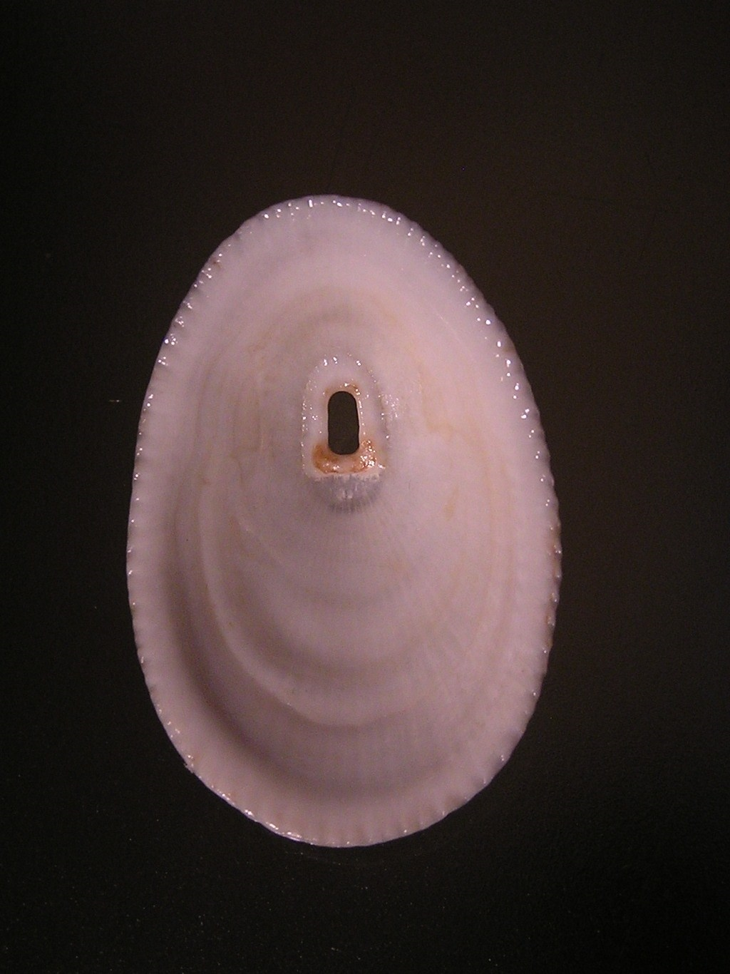 Diodora patagonica (d'Orbigny, 1839); family Fissurellidae; Uruguay